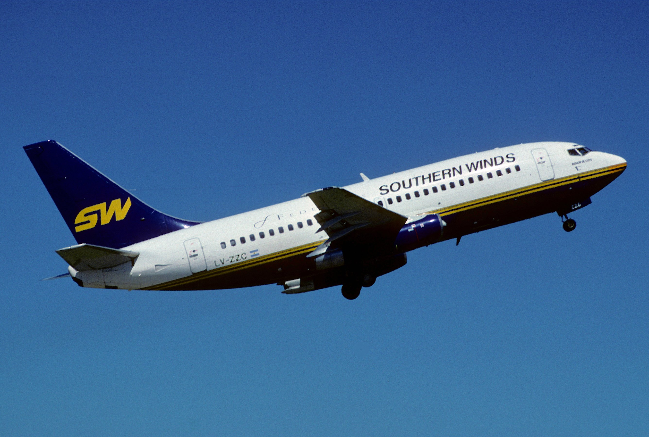 10/10/1975 Eastern Provincial Airways C-GEPB 16/05/1976 Wien Air N4039W 19/10/1976 Eastern Provincial Airways C-GEPB 15/06/1977 Aloha Airlines N70720 01/04/1978 Aer Lingus EI-BDYlsd GPA 18/10/1978 Nordair C-GNDD 04/04/1982 Aer Lingus EI-BDY 01/05/1984 Air Florida EI-BDY lsd GPA 16/07/1984 AirCal EI-BDY 12/04/1987 Britannia Airways G-BNYT 19/03/1988 Aer Lingus EI-BDY 29/03/1995 LADECO CC-CYT 01/11/2002 Southern Winds LV-ZZC lsd ACG - wfu 08/2005, stored at COR